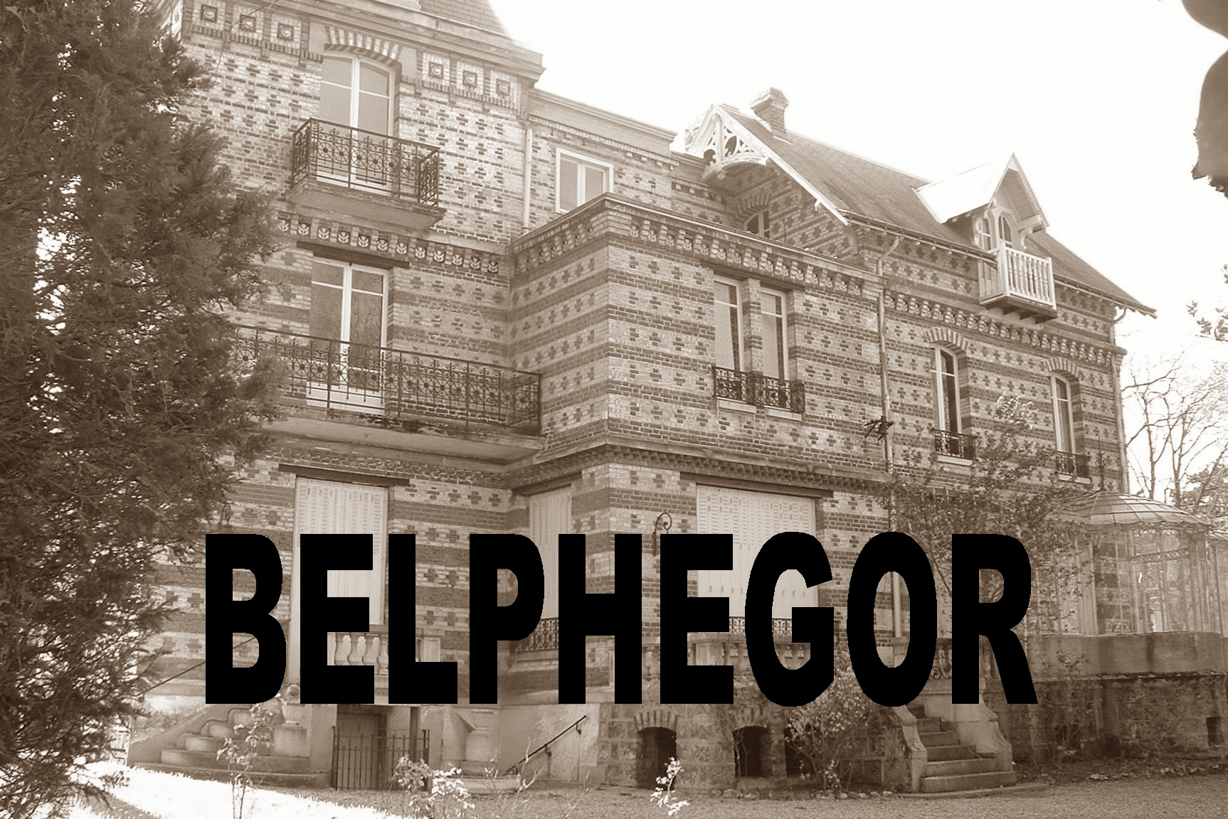 The outside of the house that was the shooting location of the house of Lady Hodwin, in the French series Belphégor, Claude Barma, 1965. This house is located alongside lac de Croissy, in Le Vésinet, near Paris (lat=48.887090,lon=2.138563). The title of the series has been overimpressed to give a feeling of screen-copy of the opening credit